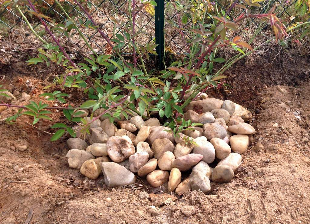 lithic much for weed control